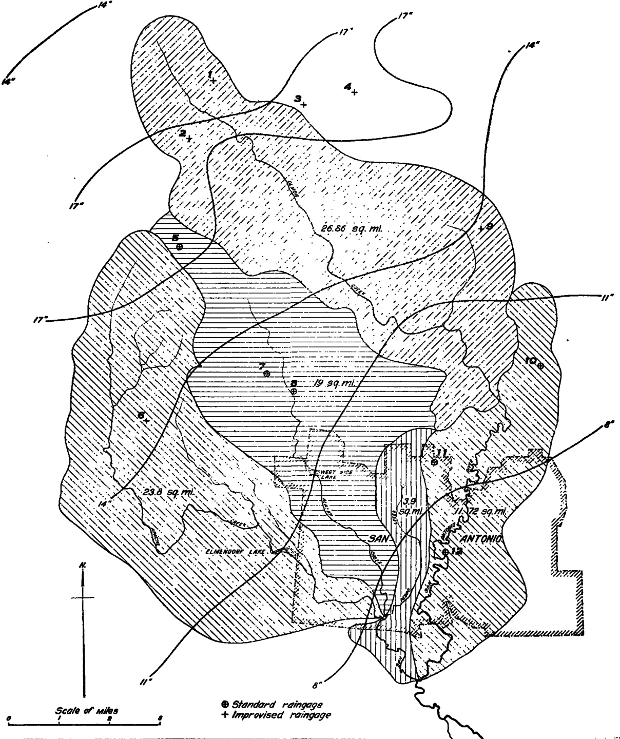 Map of rainfall totals superimposed over a map of drainage basins near San Antonio.